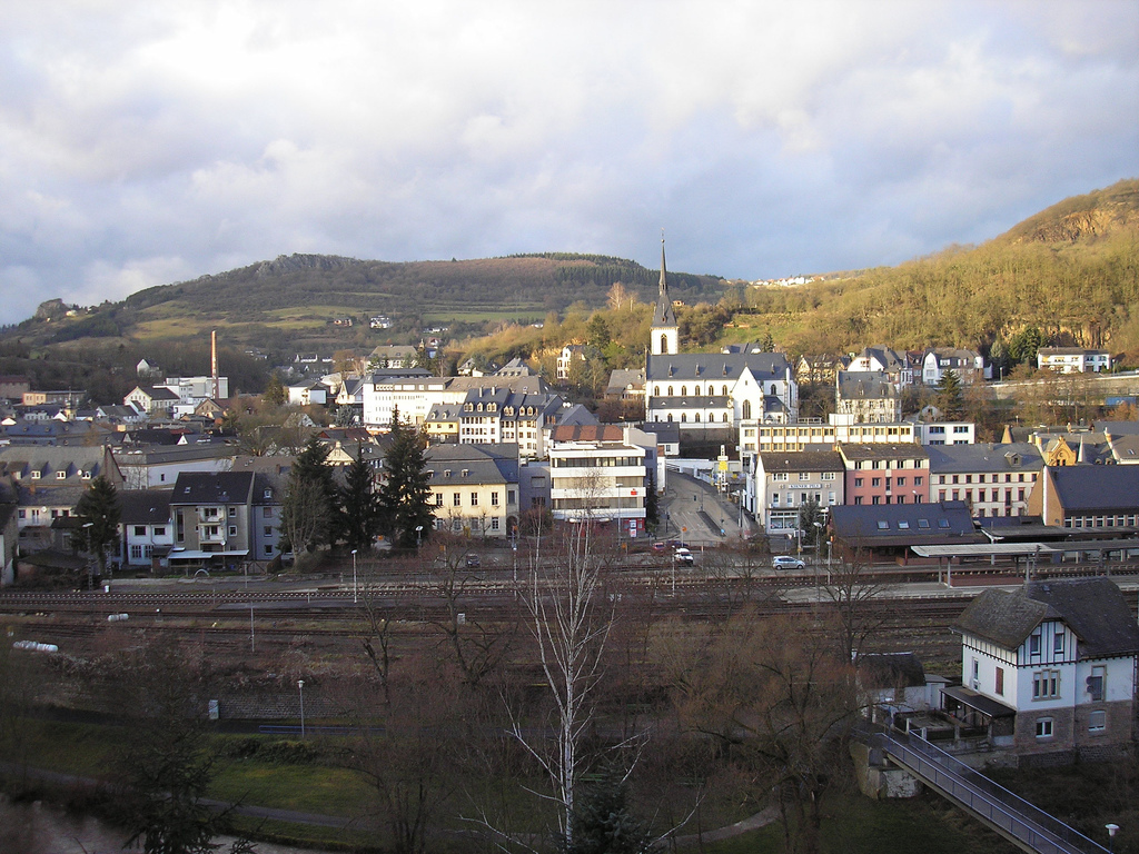 view of Kirn (Germany)